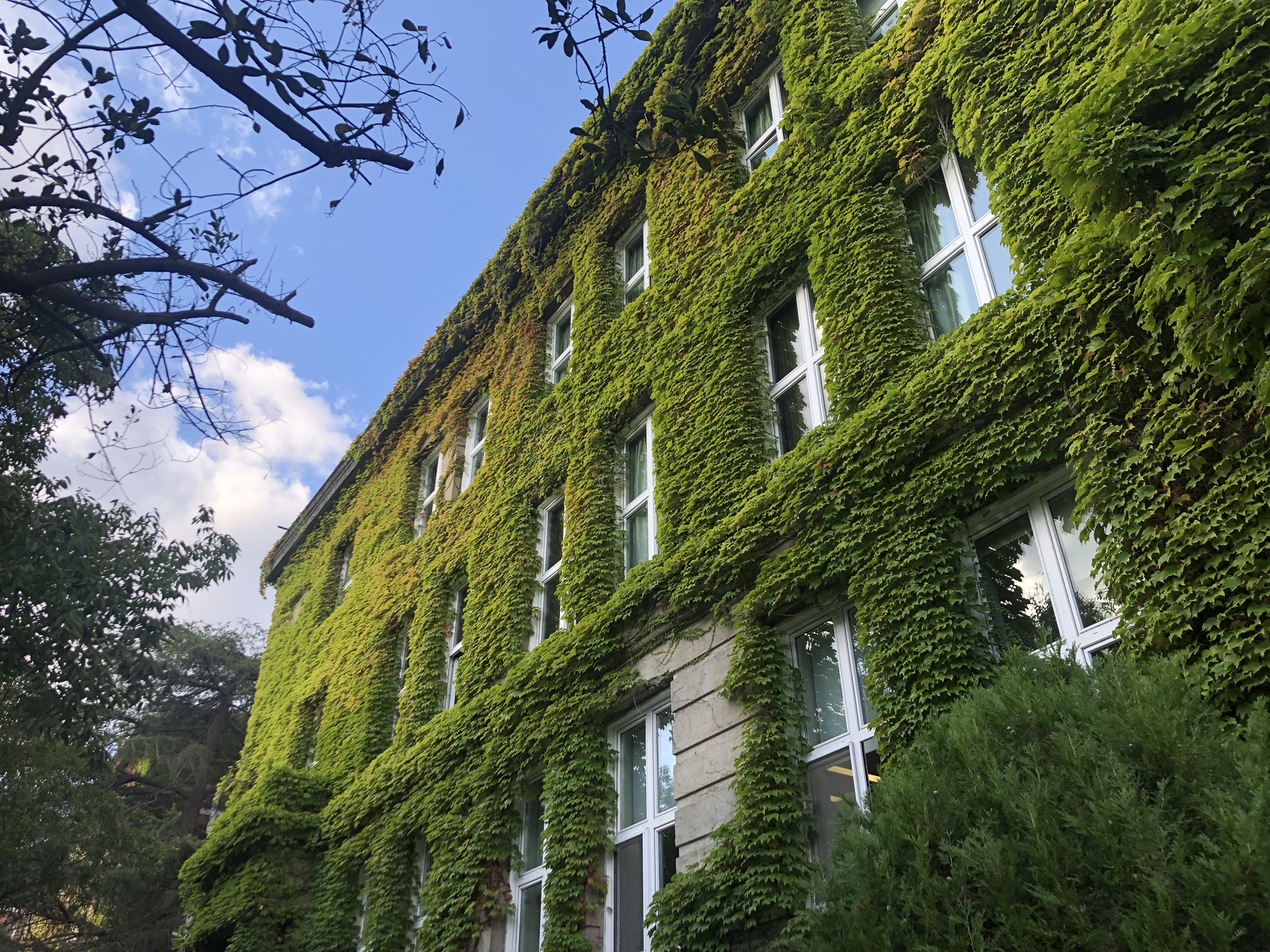 A photograph of the front façade of Mitchell Hall in the Arnavutköy campus of Robert College in Istanbul, Turkey. In summer months, the front of the three-storey 20th century neoclassical building, facing the Bosphorus, is covered almost entirely in ivy.